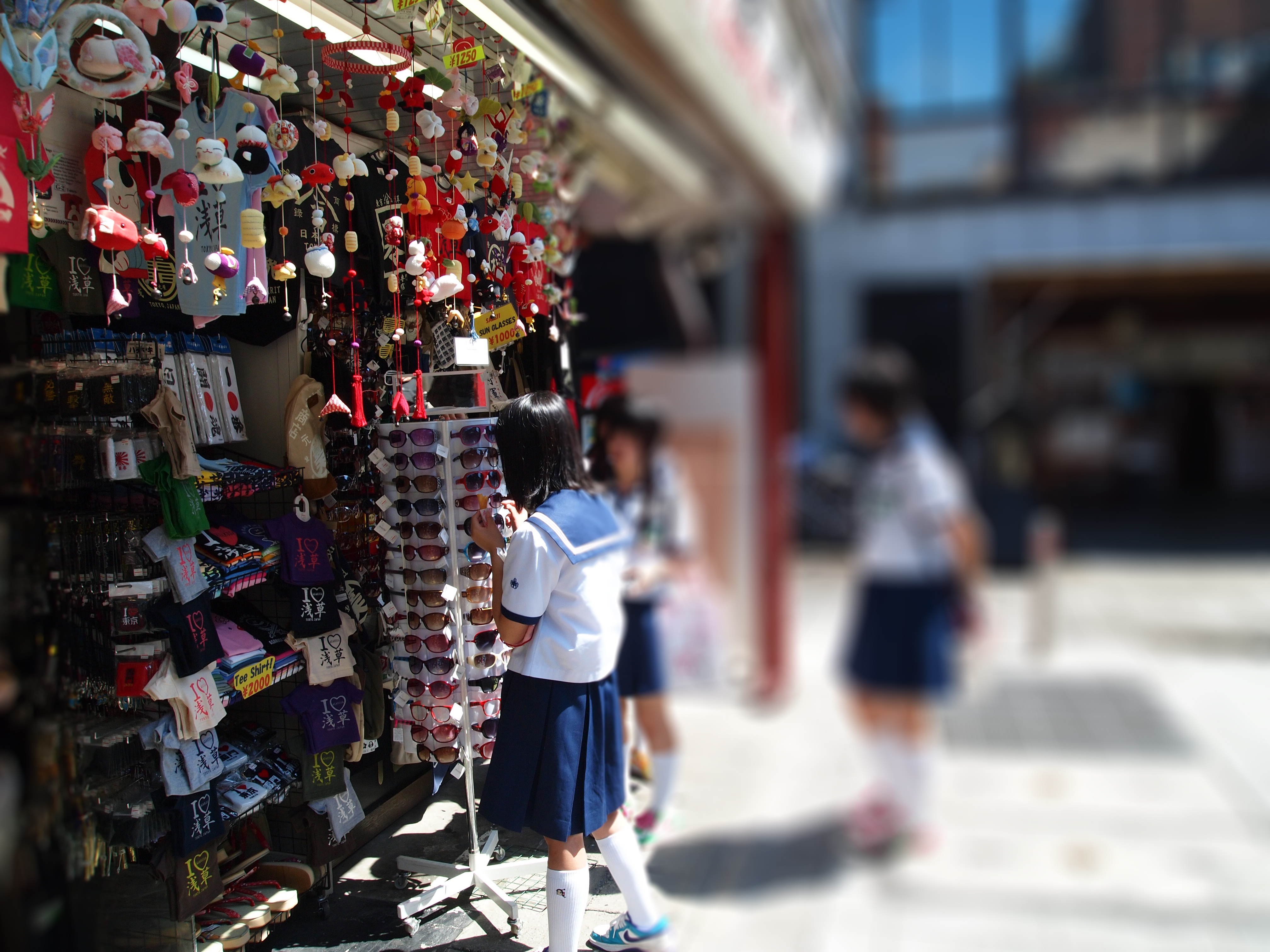 School girls in uniform in Nakamise, Asakusa, Japan.